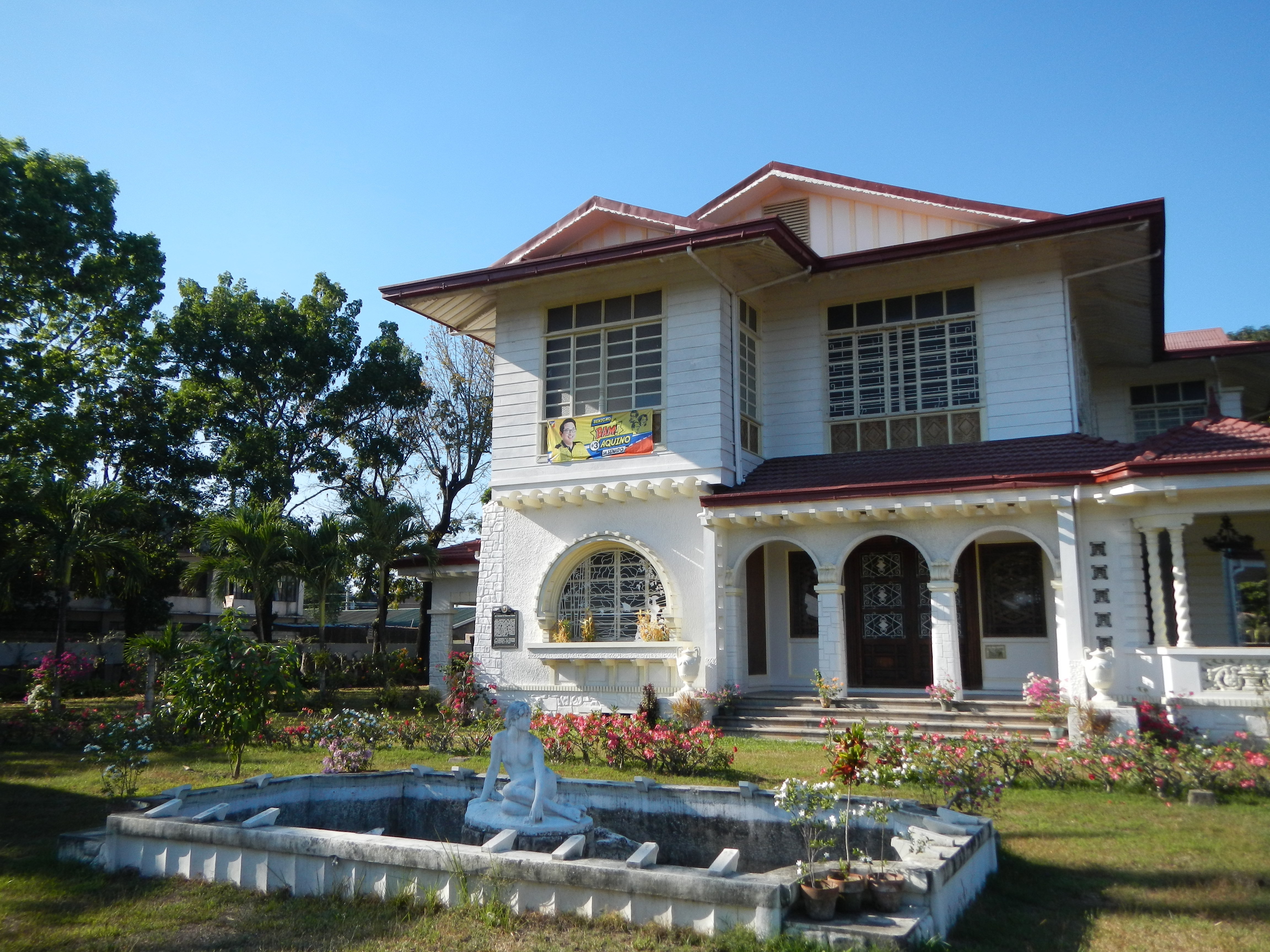 Aquino Family Ancestral House-Concepcion Tarlac - Aquino family ancestral house in Concepcion, Tarlac. Aquino unveils historical marker at ancestral home in Tarlac September 10th, 2011[1] The National Historical Commission declared the Aquino house as a historical site in 1987 because of its significance as the home of patriots from the Aquino family based on its Board Resolution No. 1 Series of 1987. Three generations of Aquinos lived in the house since it was built in 1939, according to Malacañang.[2][3] 72-year-old house[4] Ancestral houses of the Philippines[5] Concepcion, Tarlac[6] Benigno Aquino, Jr.[7]Benigno Simeon Aquino III [8] Benigno Aquino, Sr. [9]